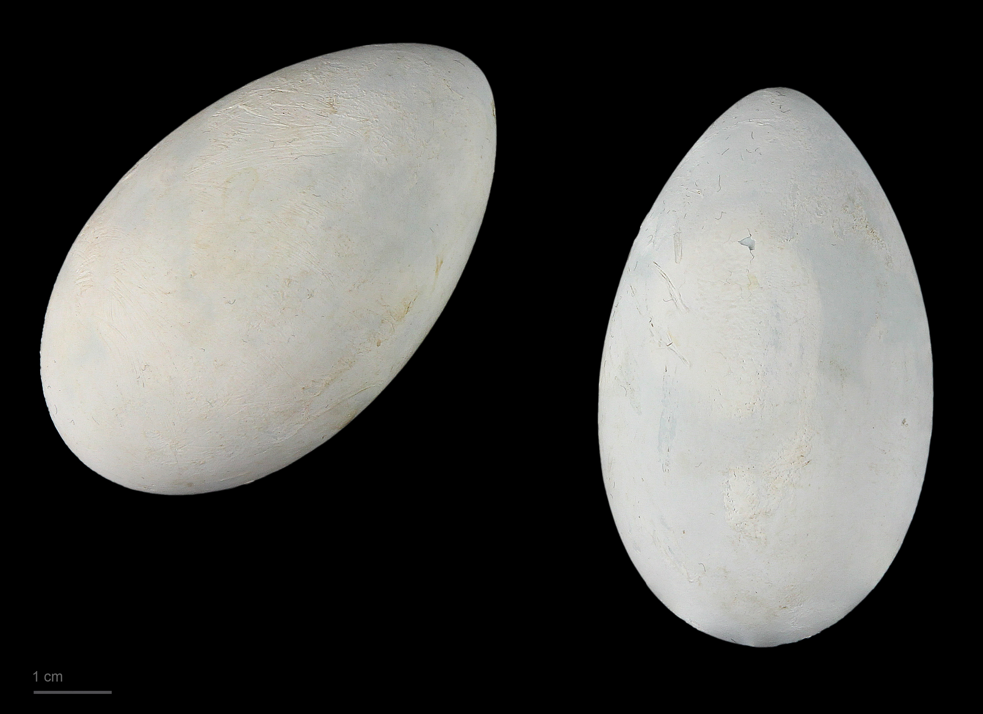 Eggs of great cormorant Two specimens of the same spawn ; collection of Jacques Perrin de Brichambaut.